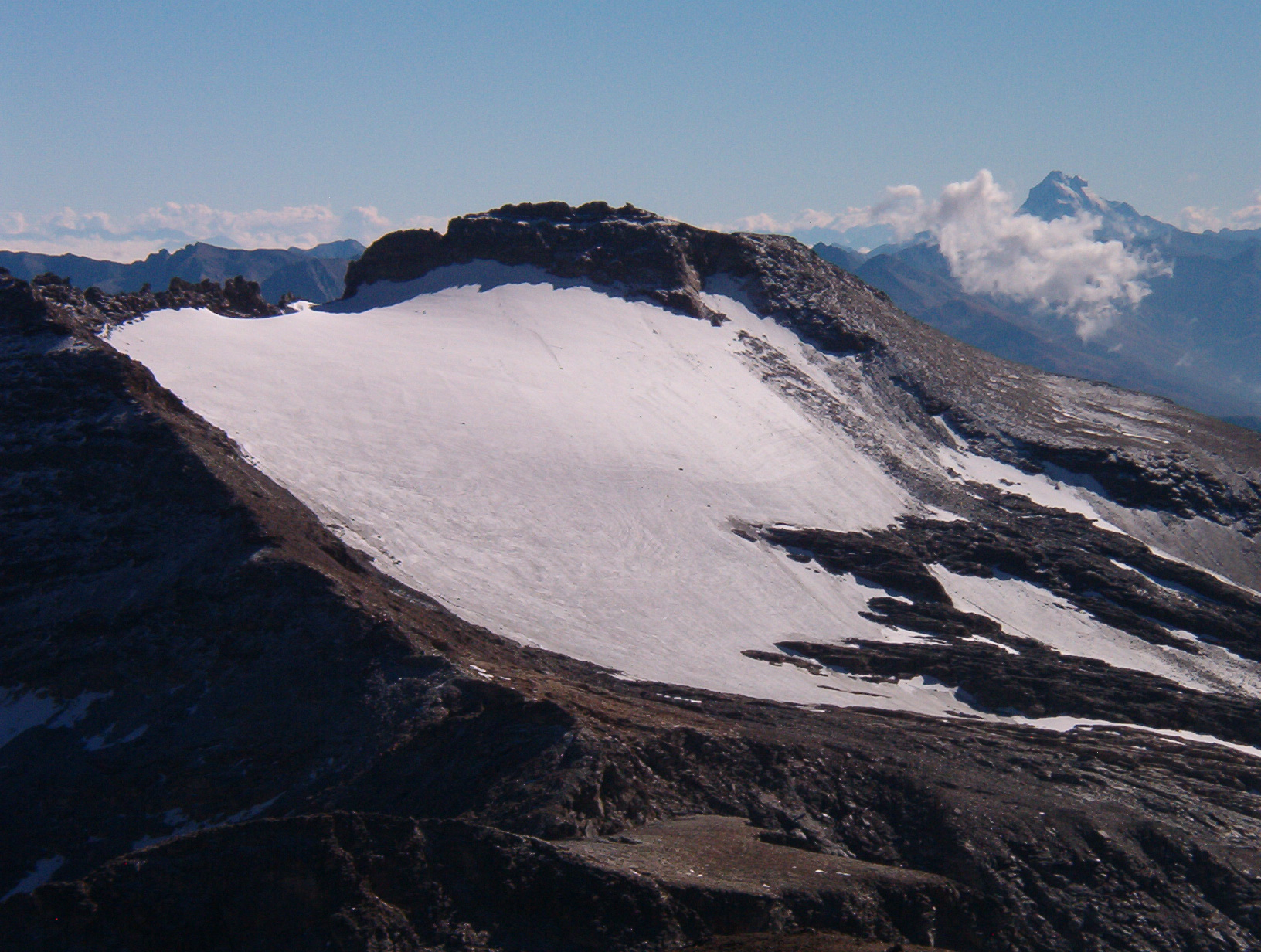 Mont Niblè from Rocca d'Ambin - Cottian Alps